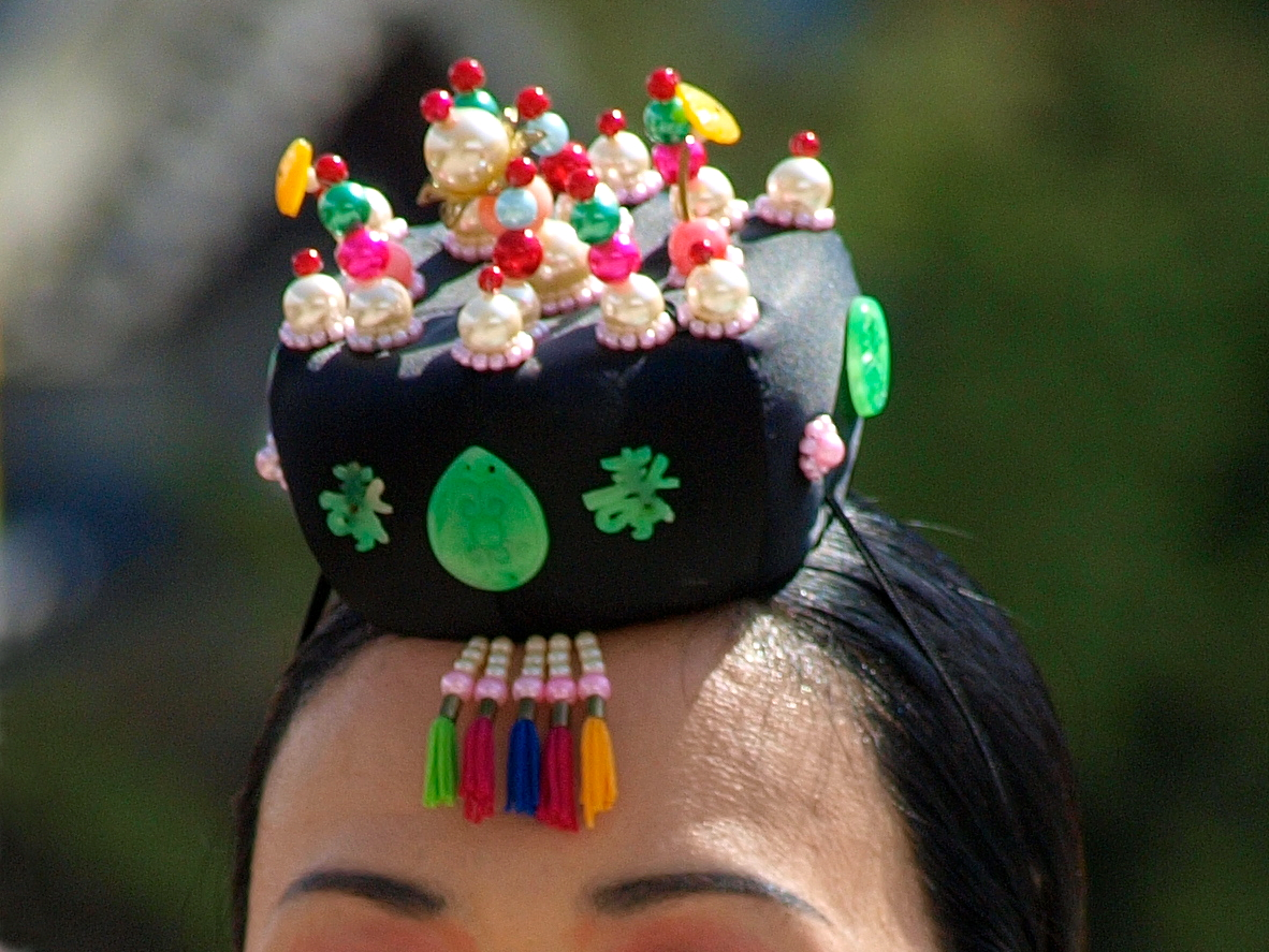 Jokduri is a Korean traditional crown worn by women along with hwarot or wonsam for special occasion such as wedding ceremony.